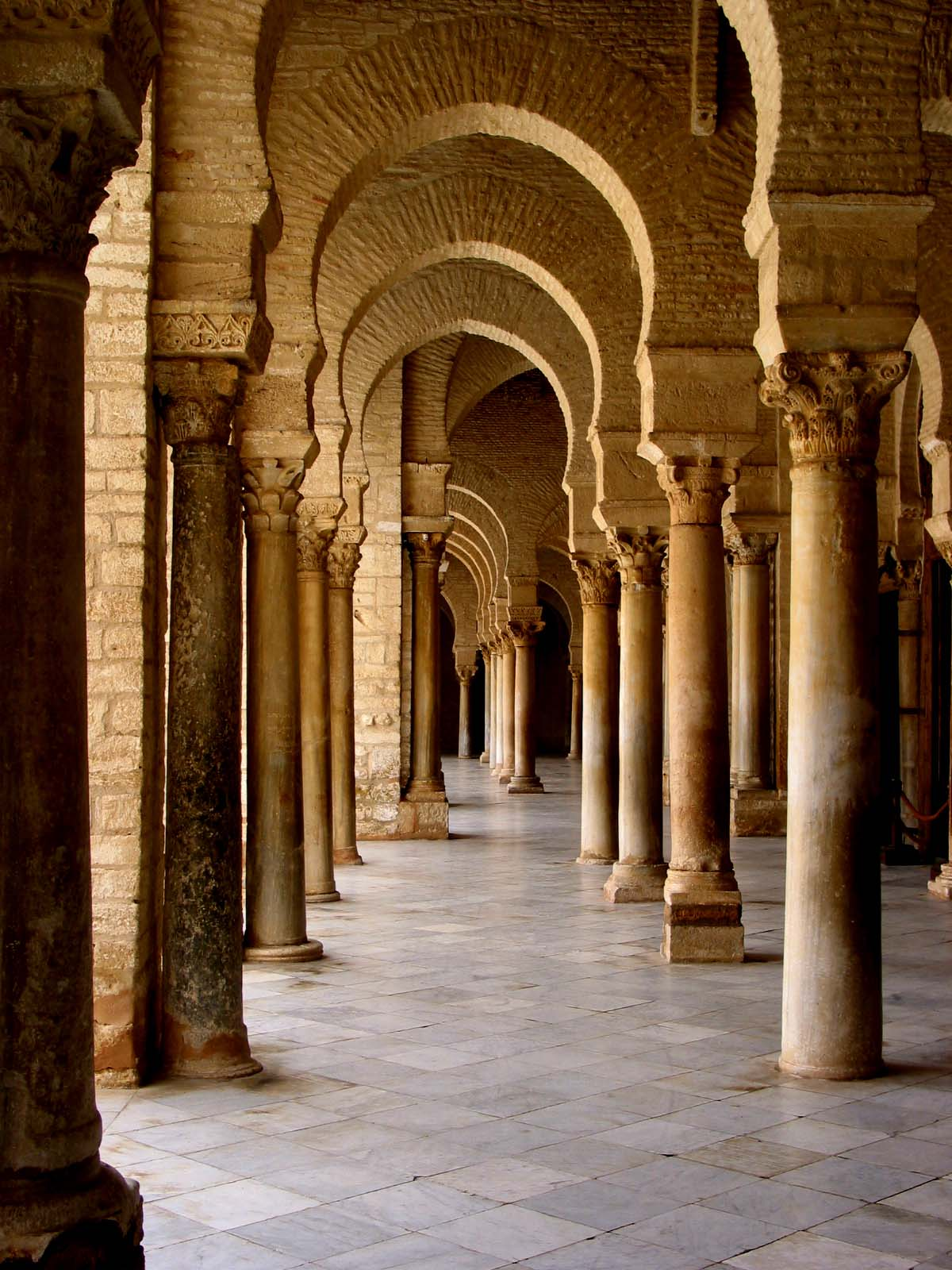 Ancient Roman columns in the Great Mosque of Kairouan (Tunisia)